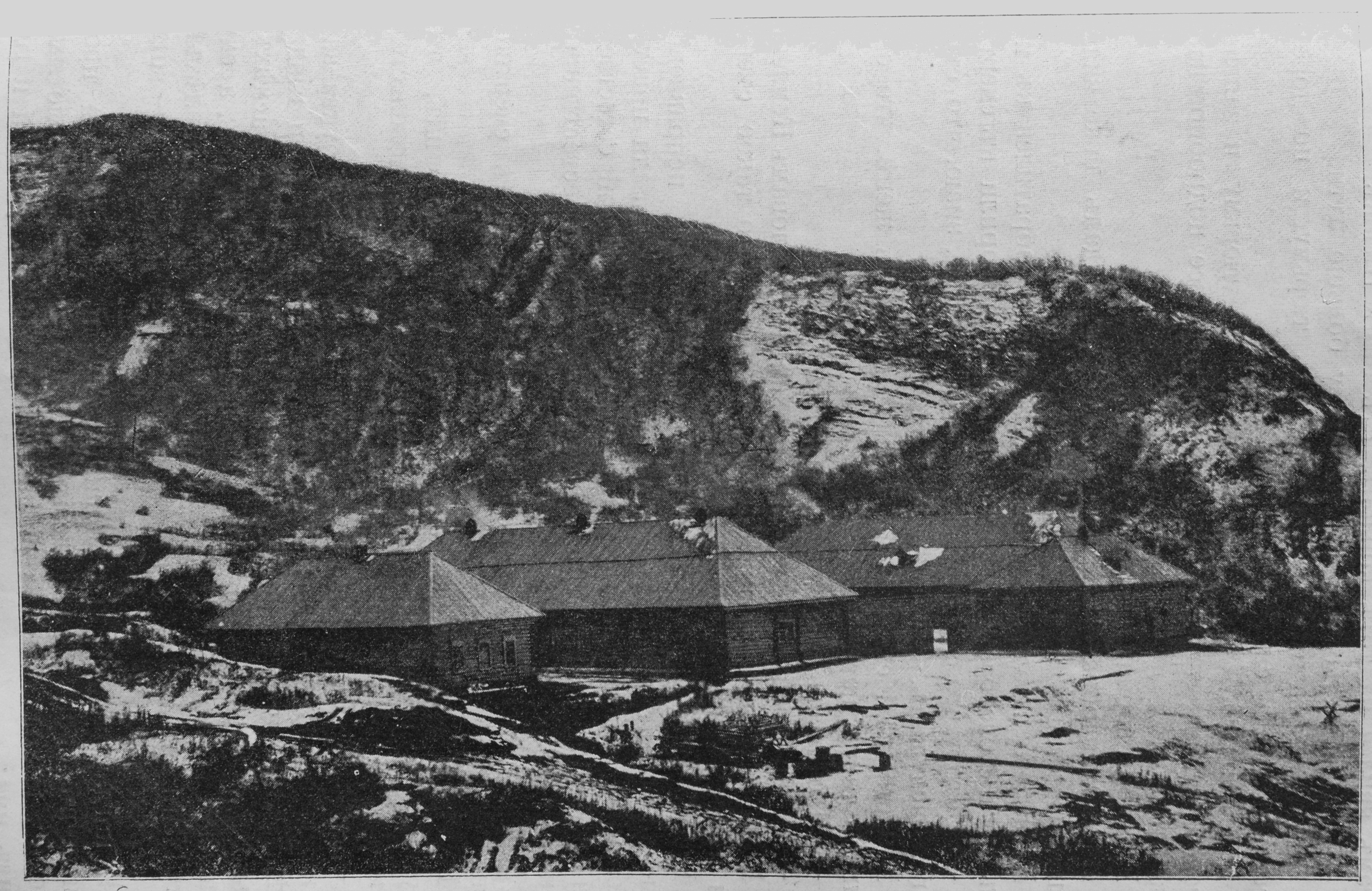 Voevodskaya prison, abolished now